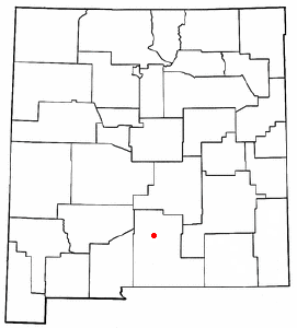 Please add Las Cruces, New Mexico location to this map Category:Images of New Mexico